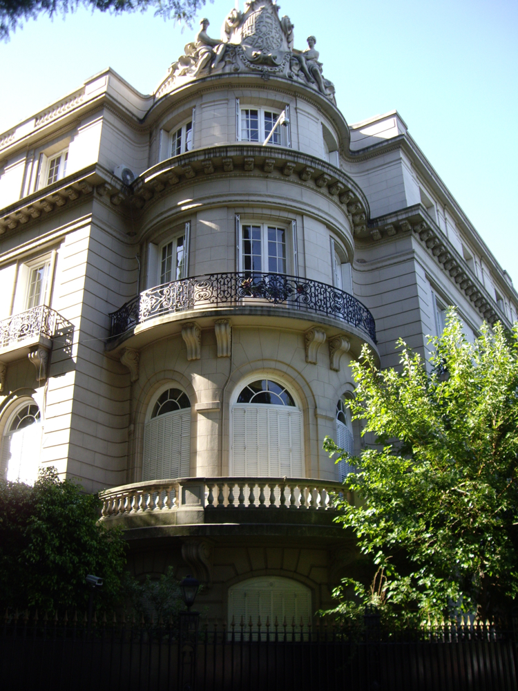 Spanish Embassy, Buenos Aires. The architect Carlos (Karl) Nordmann built this architectural masterpiece located at Av. Figueroa Alcorta 3102, Buenos Aires in 1912. The house was originally constructed for an aristocratic family Salas, the family’s two sons could not decide which one will live in the house after the father die. Since 2000 the house has become the Spanish embassy, and the Spanish government has taken action to modify the architecture to its original state, many critique that the house interior were highly changed by the Spanish Government and that has violated the historic Preservation laws. At this time a legal liabilities are still pending at the Argentine court against the Spanish Government for the alteration at the house of interiors.